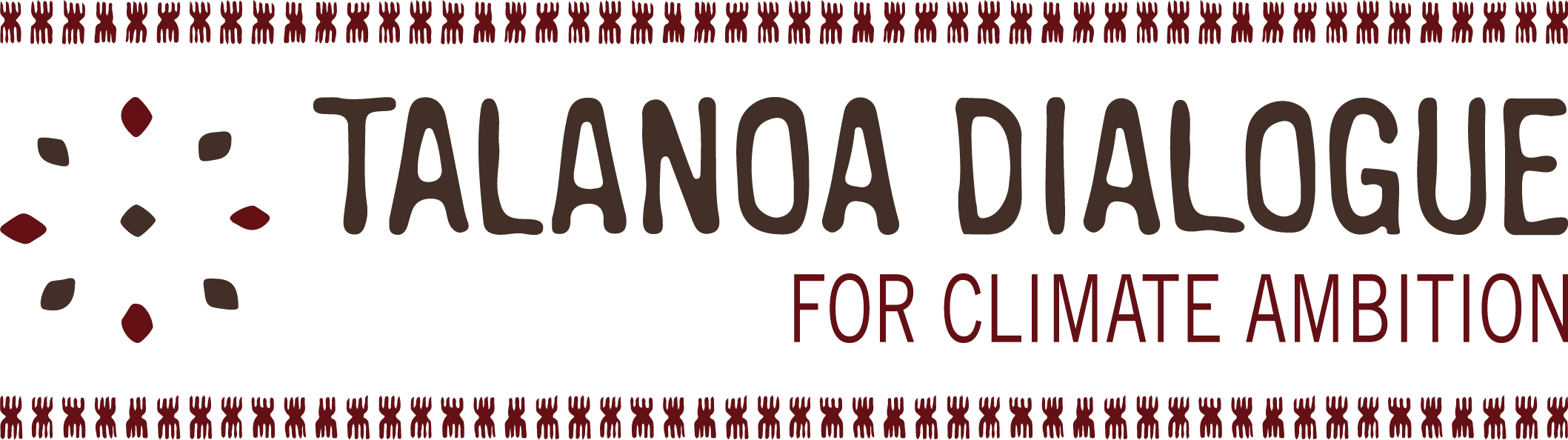 The official logo for the Talanoa Dialogue, part of the official UN climate negotiations.